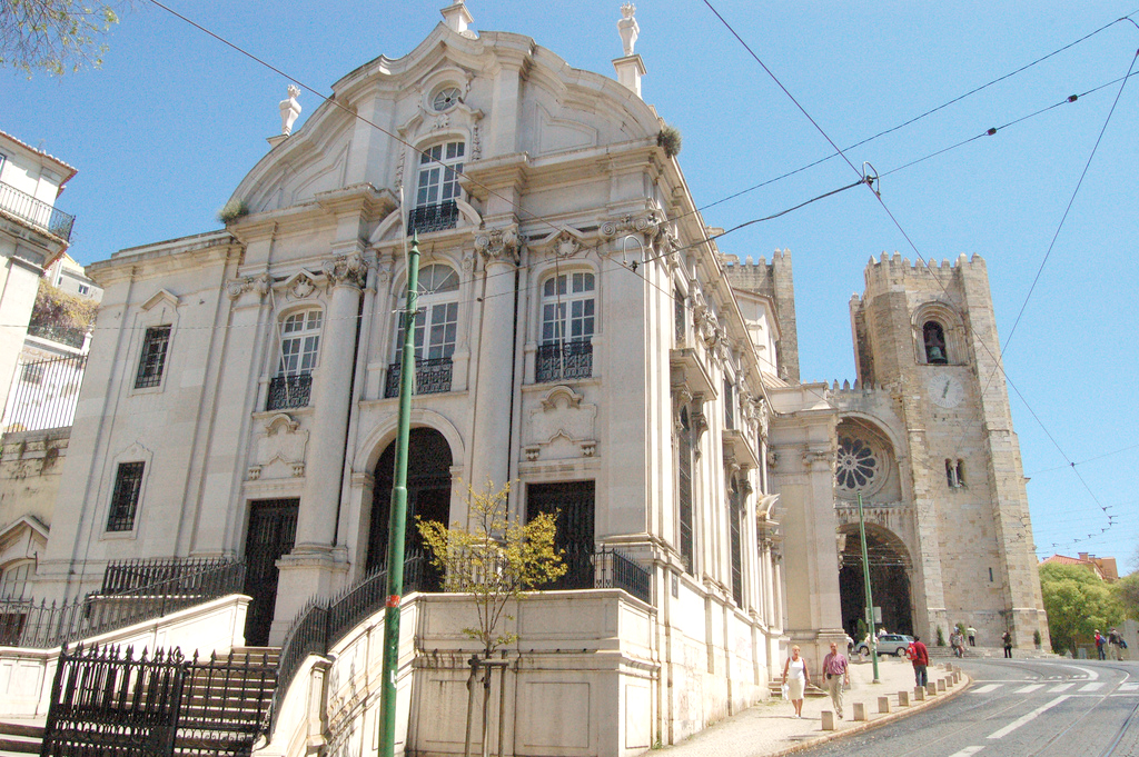 Saint Anthony Church in Lisbon, Portugal